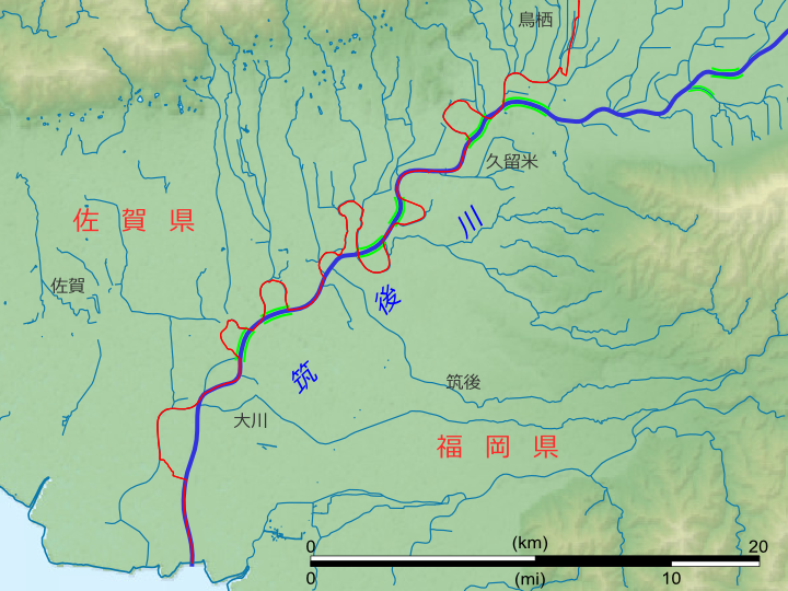 Chikugo River map with 1.mainstream of Chikugo River（thick blue line）, 2.boundary of Fukuoka prefecture and Saga prefecture(thin red line), 3.short cut channel of Chikugo River produced in 16th century or later(double yellowgreen line).